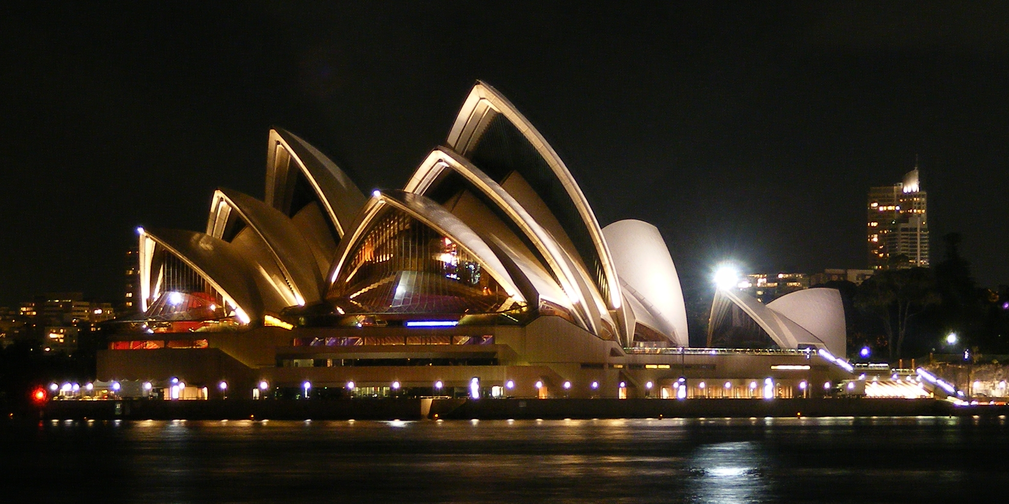 Sydney Opera house at night